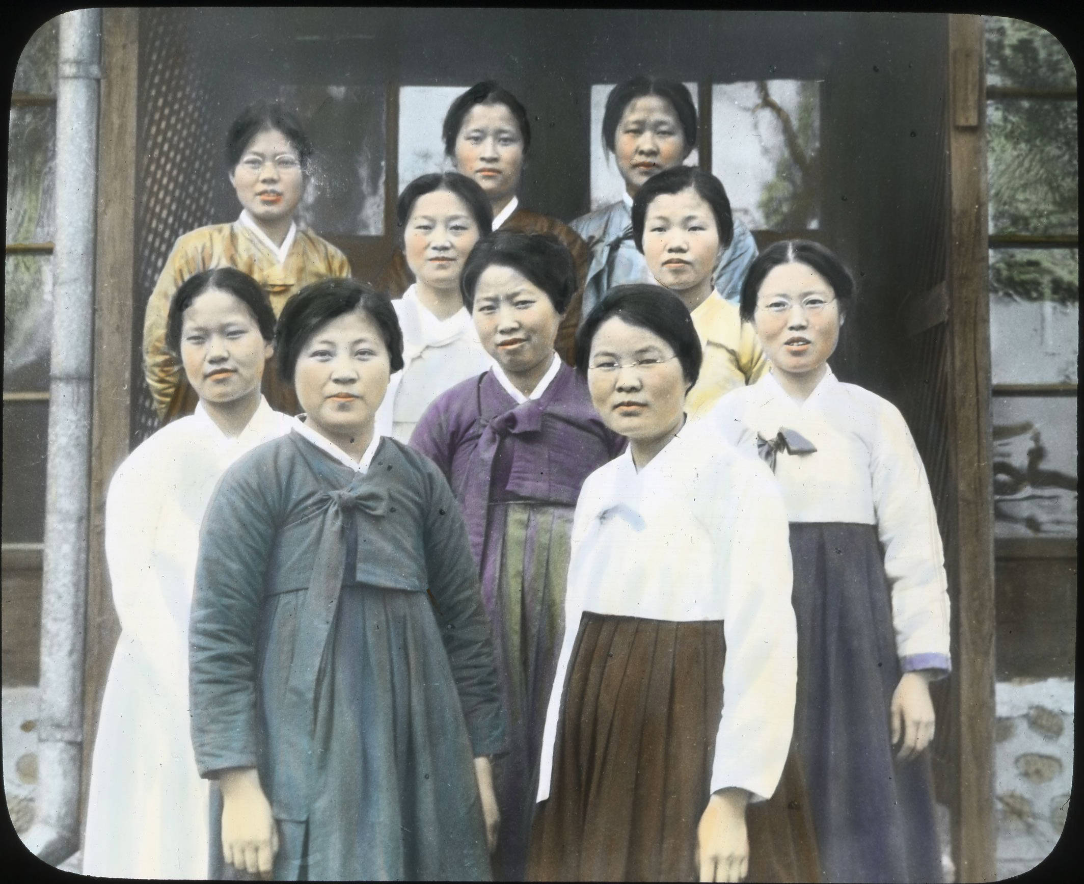 Girls of Ewa Haktang Girls' High School, [s.d.] Operated by Womens' Foreign Missionary Society. This school has produced a large share of the woman teachers and leaders of Korea. There is a great rush of students, crowding the school beyond its capacity. Korean parents eagerly ask that their daughters be allowed to take higher education. Date created: 1908/1922 Publisher (of the Digital Version): University of Southern California. Libraries Repository Name: Methodist Church (U.S.) Legacy Record ID: kda-m50 Photographer: Methodist Episcopal Church Format: photograph Archival file: kda_Volume42/Taylor_box45num37.jpg Rights: "Neither the General Conference nor any General Agency of The United Methodist Church (successor to the Methodist Episcopal Church) claims any interest in the photos or images." Filename: Taylor_box45num37 Coverage date: 1908/1922 Contributing entity: University of Southern California Repository Address: Nashville, Tennessee Part of collection: Korean Digital Archive Donor: Taylor, Ewing Bevard Type: images Part of subcollection: The Reverend Corwin & Nellie Taylor Collection Geographic Subject (Country): Korea Compiler: Taylor, Corwin; Blood-Taylor, Nellie